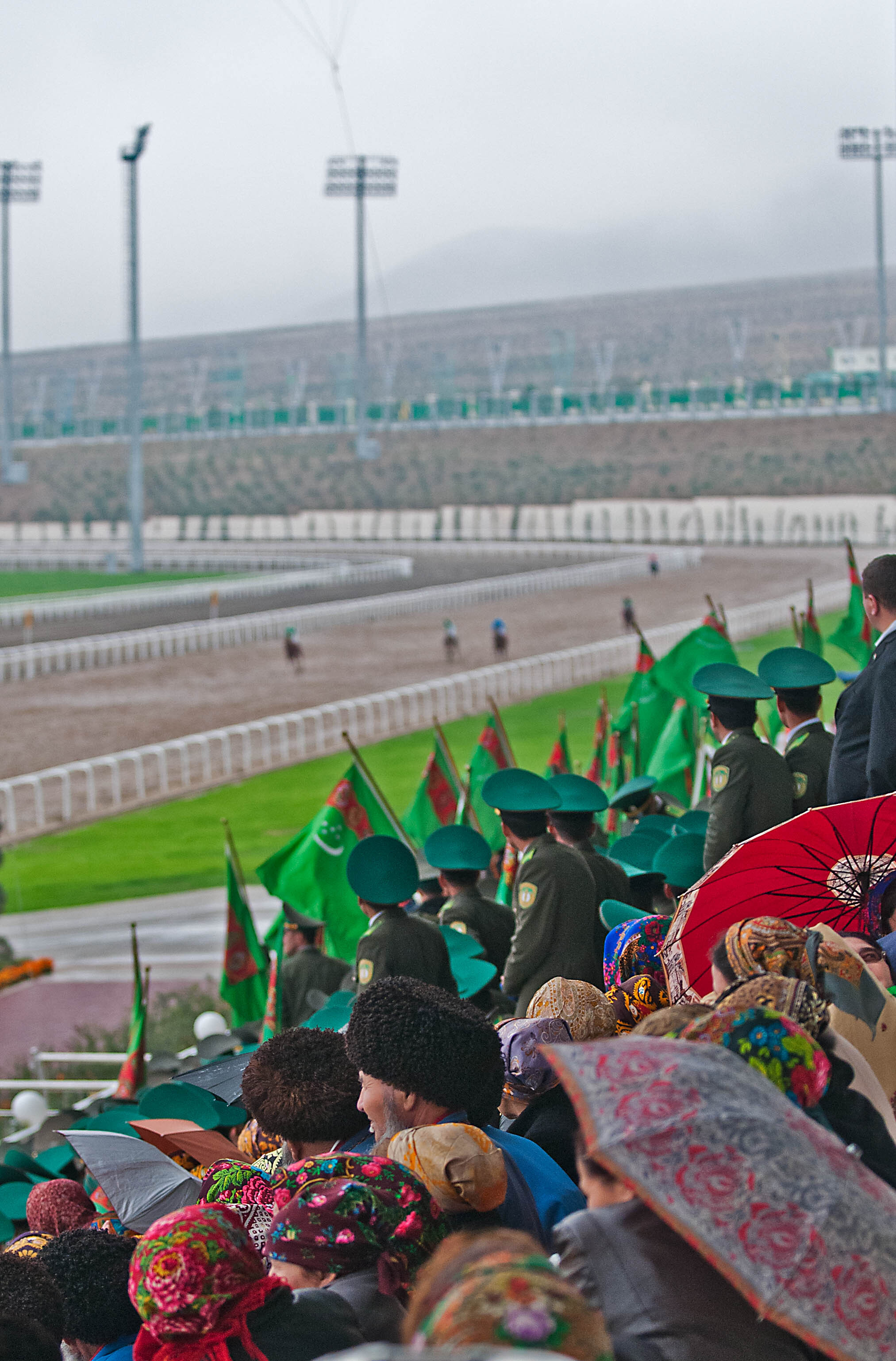 Opening of the Ahal Velayat Equestrian Complex